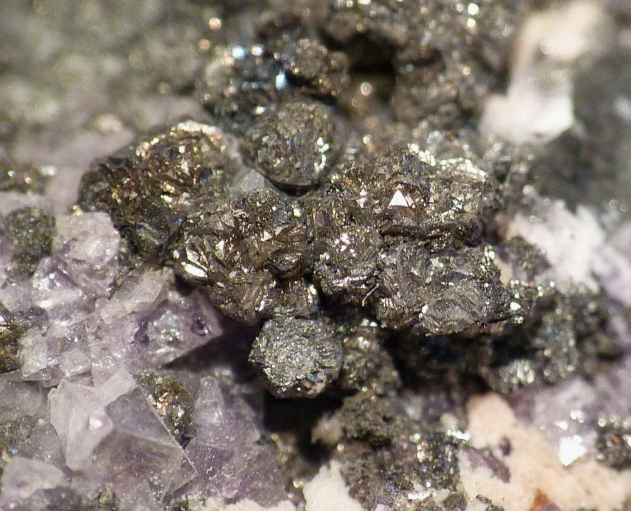 Nickel-skutterudite Locality: St Johannes Mine, Wolkenstein, Marienberg District, Ore Mountains, Saxony, Germany Field of view 7 mm. Collected on 29 April 2011.